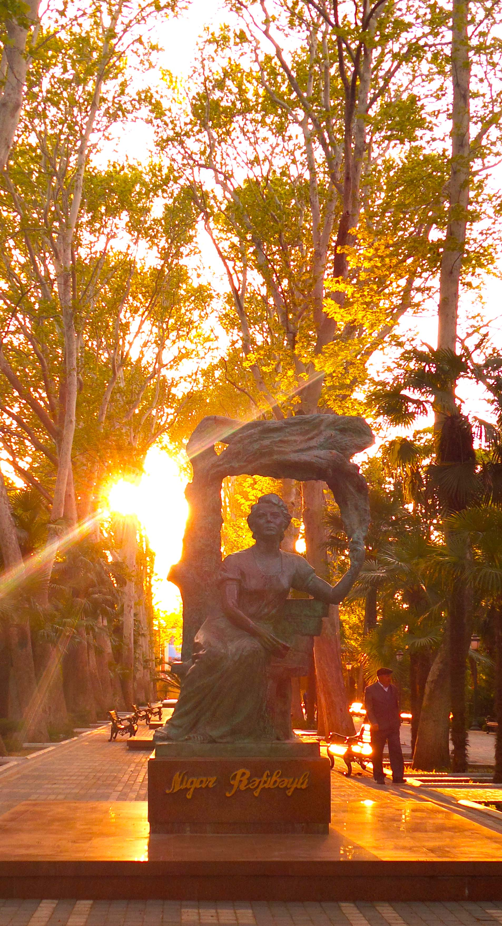 XAN BAĞI